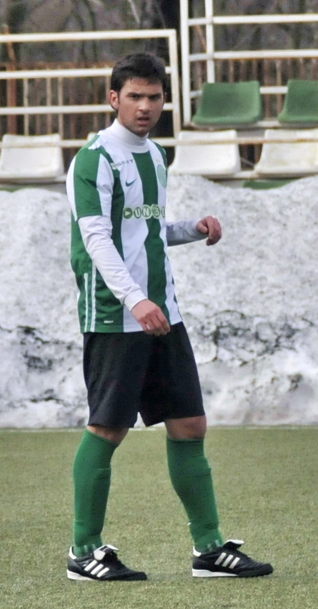 André Schembri, Maltese association football player.